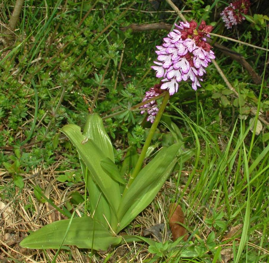 Orchis purpurea - Cerreto Ratti, Alessandria, Italy